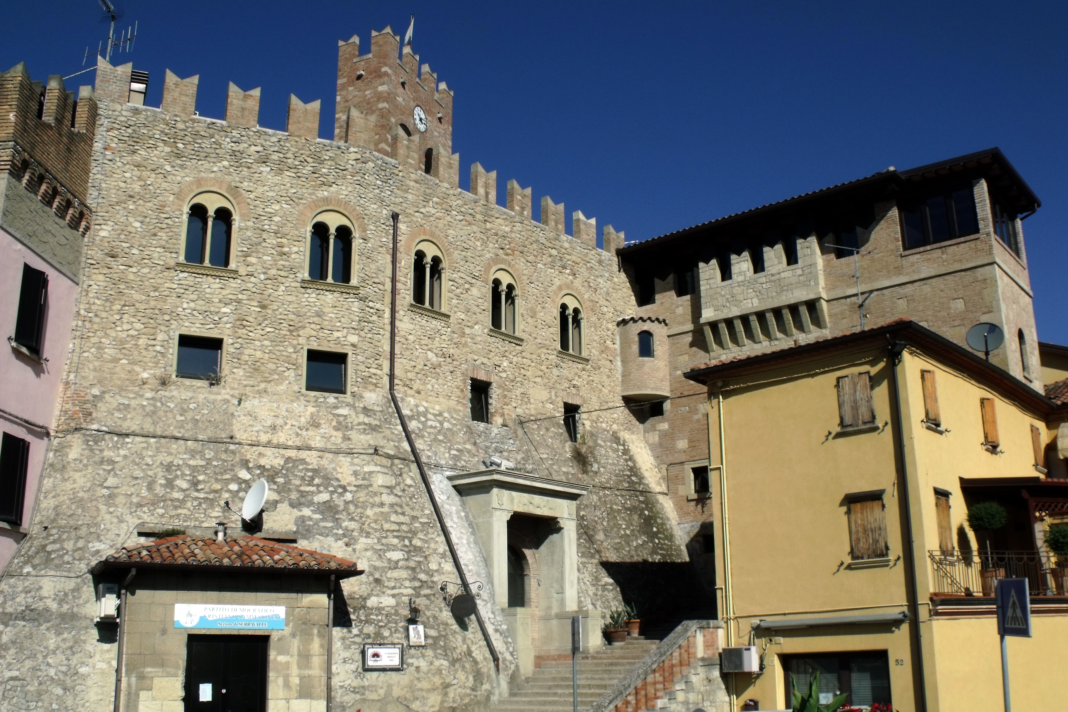 The Castle of Serravalle in San Marino